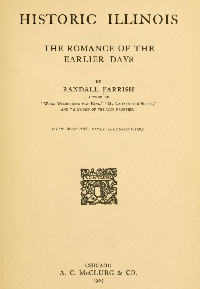 Frontpage of Parrish, Randall, 1858-1923. Historic Illinois: the Romance of the Earlier Days. Chicago: A. C. McClurg & Co., 1905.